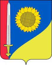 Coat of arms of Nikolayevka, Shcherbinovski Raion, Krasnodar Krai, Russia